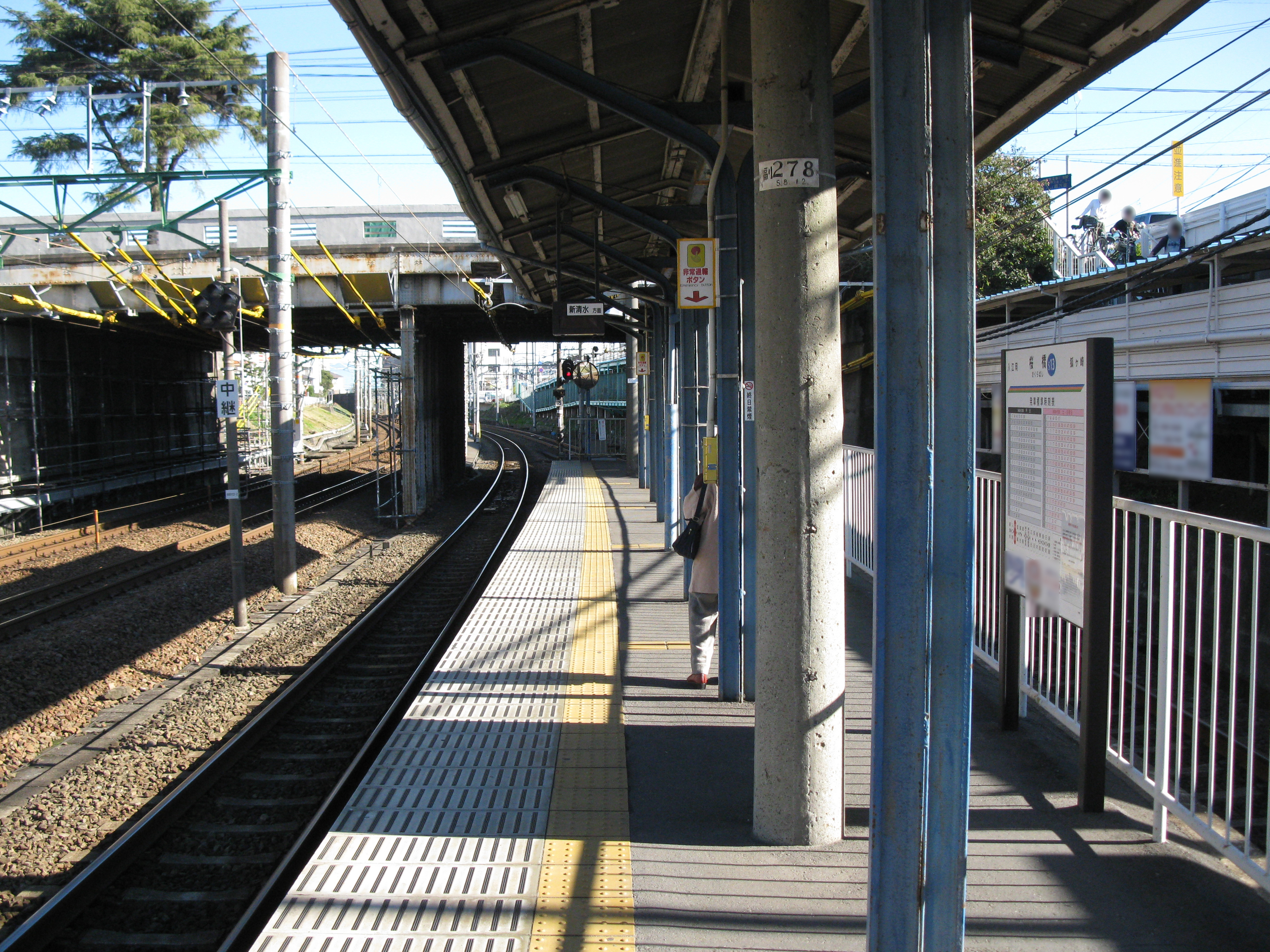 Sakurabashi Station platform(for Shin-Shimizu, Shizuoka Railway Shizuoka-Shimizu Line)